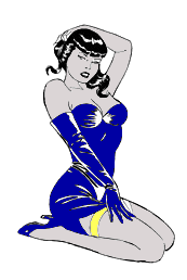 Drawing of a Pin-up girl in blue.